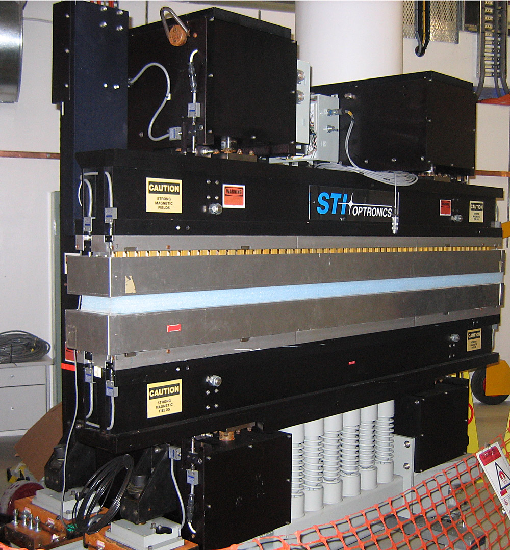 An undulator at the Australian Synchrotron, Clayton, Victoria. The beam of charged particles from the synchrotron passes down the metal box, between the poles of a linear array of permanent magnets with their poles alternating N, S, N, S,. . . The alternating magnetic fields bend the path of the charged particles, causing them to "unudulate" or "wiggle" as they travel. This wiggling causes them to emit electromagnetic radiation (x-rays) which is emitted at the end of the undulator and used for various experiments.